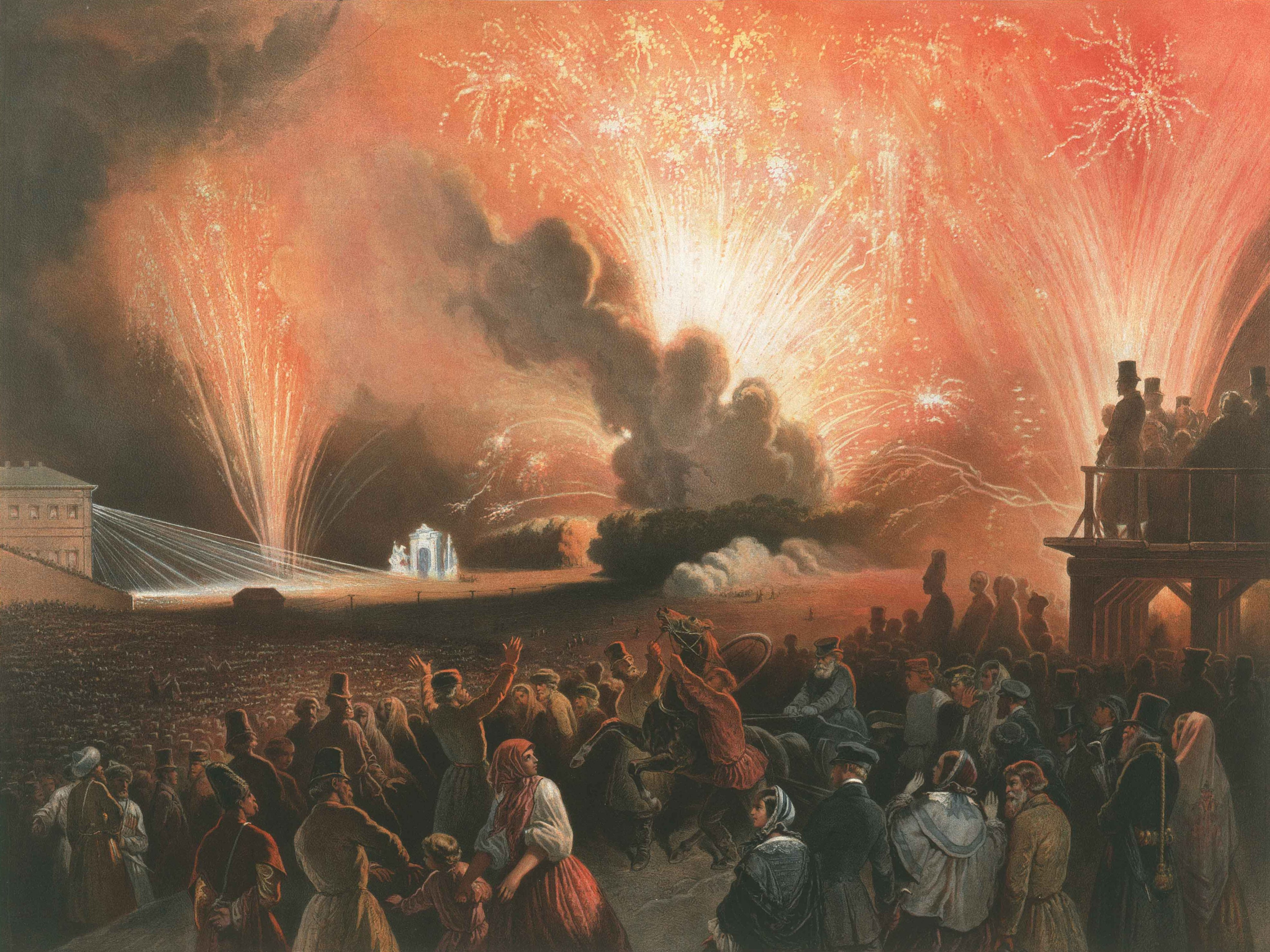 Fireworks /Feuerwerk (Chromolithographie)